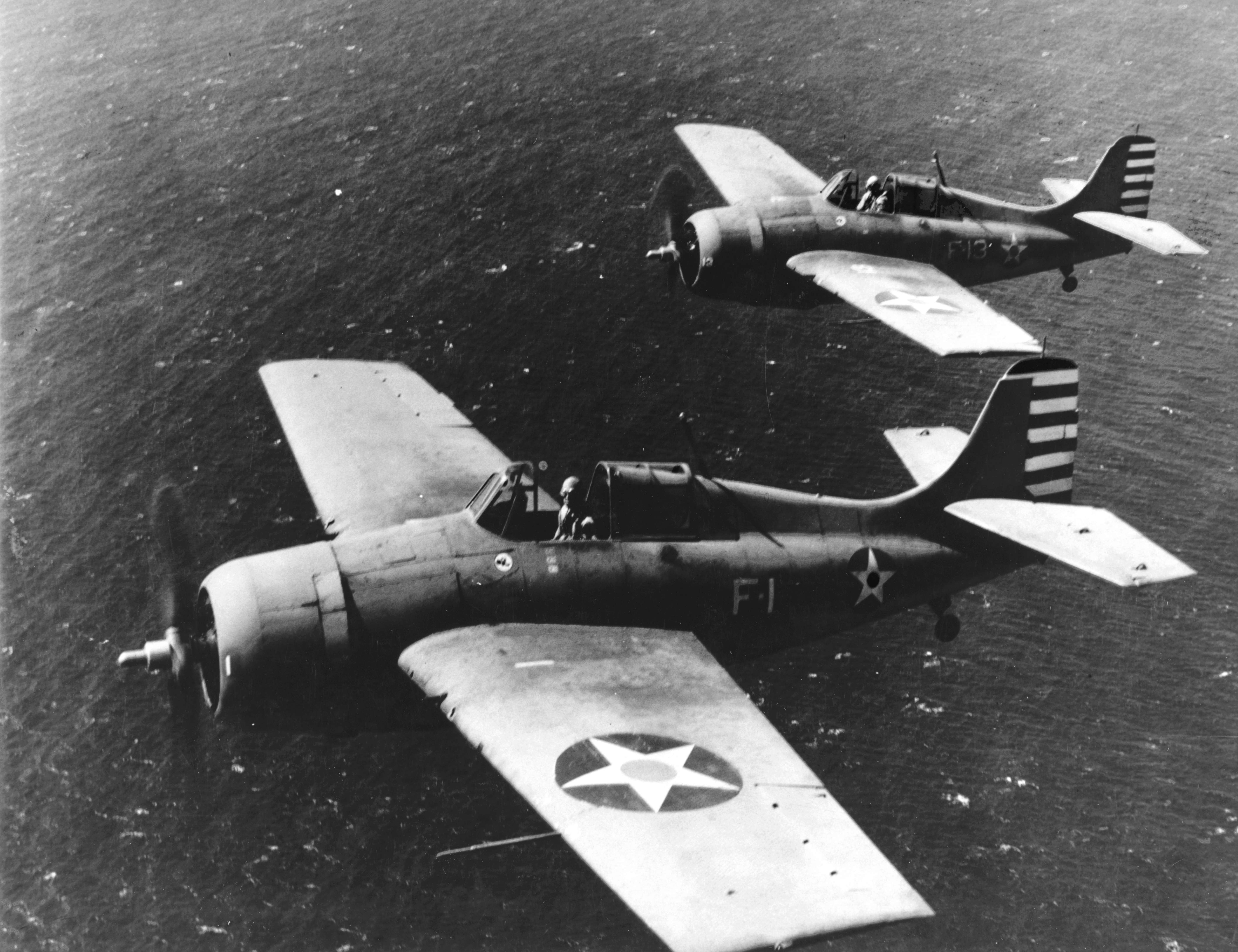 Two U.S. Navy Grumman F4F-3 Wildcat Fighting Squadron 3(VF-3) in flight near Naval Air Station, Kaneohe, Oahu, Hawaii, on 10 April 1942. The planes are BuNo 3976 (F-1, foreground), flown by VF-3 Commanding Officer Lieutenant Commander John S. Thach, and BuNo 3986 (F-13), flown by Lieutenant Edward H. O'Hare. On 20 February 1942, F-1, flown by Thach and Lt. Noel Gayler, shot down a bomber and assisted in downing two more bombers and a patrol plane. F-13, flown by Thach and Ensign Leon Haynes, shot down a bomber and assisted in downing another bomber and a patrol plane. Both of these aircraft were lost on 8 May 1942 with USS Lexington (CV-2), during the Battle of Coral Sea.